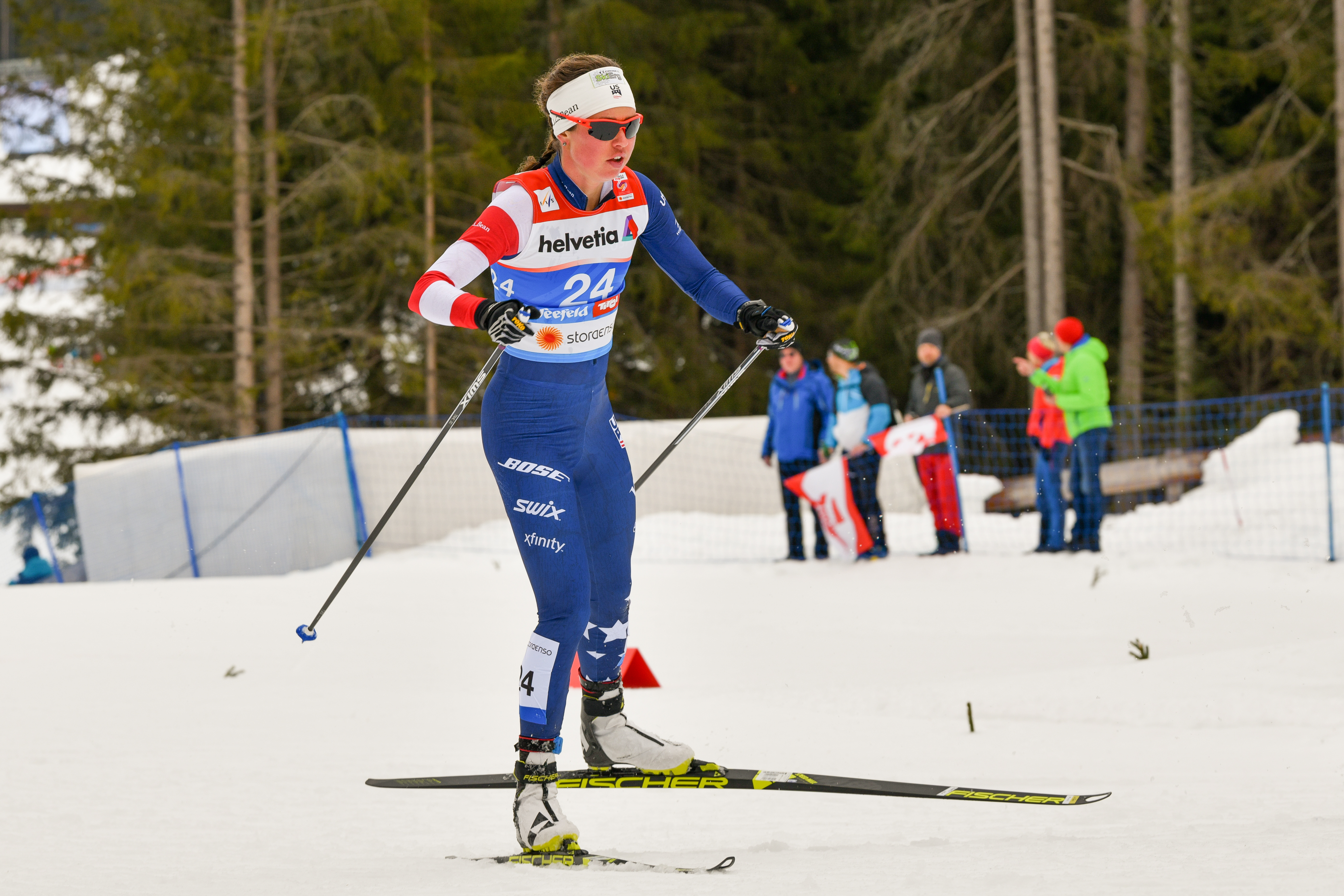 FIS Nordic World Ski Championships Seefeld 2019 - Ladies 30km Mass Start Free. Picture shows Caitlin Patterson (USA).